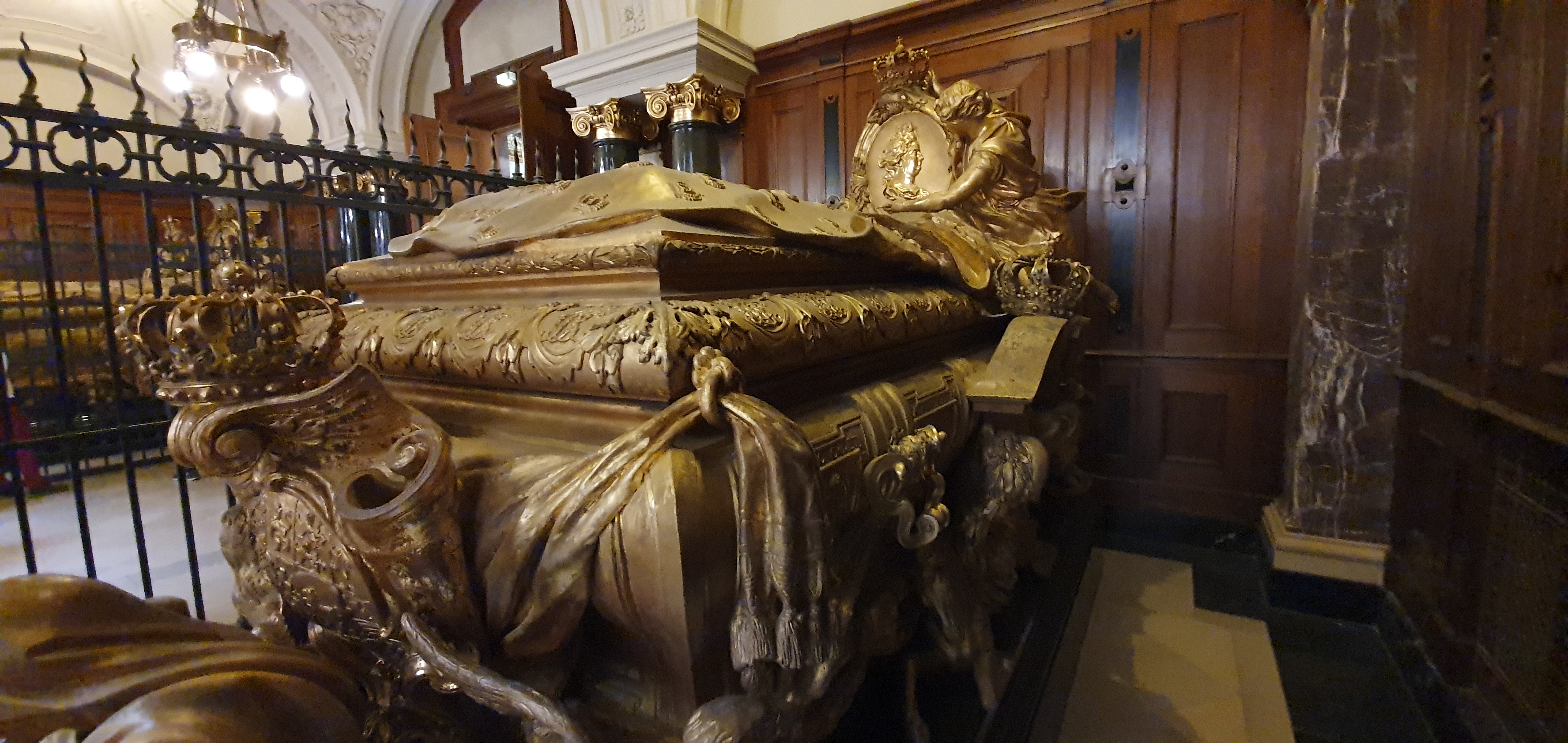 Ceremonial sarcophagus of Sophia Charlotte of Hanover (Berlin Cathedral)